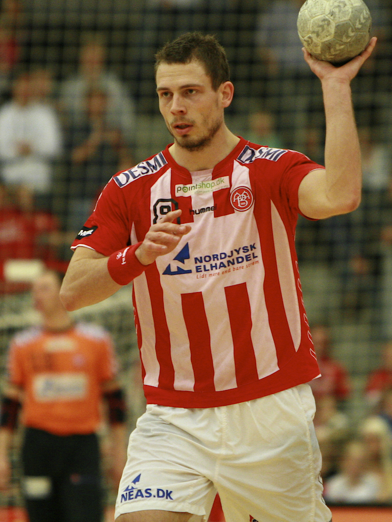 Mads Christiansen from AaB Handball.